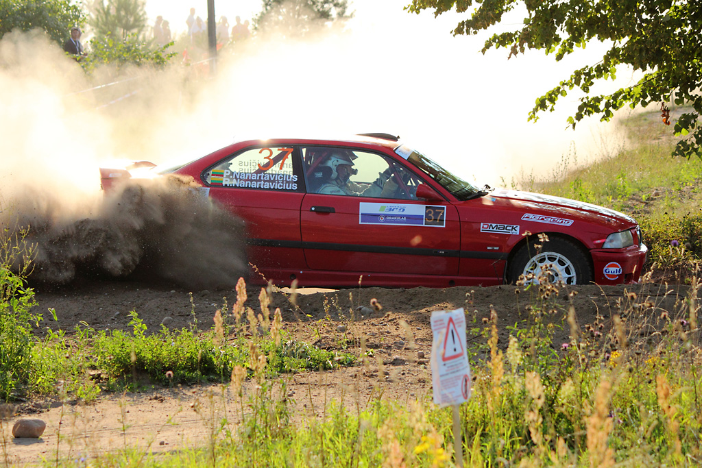 Rally driver Paulius Nanartavičius, BMW M3